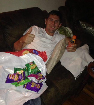 Donegal Gaelic Footballer Ryan Bradley was put on a new diet by team manager Jim McGuinness prior to his team's success in the 2012 All-Ireland Senior Football Championship.